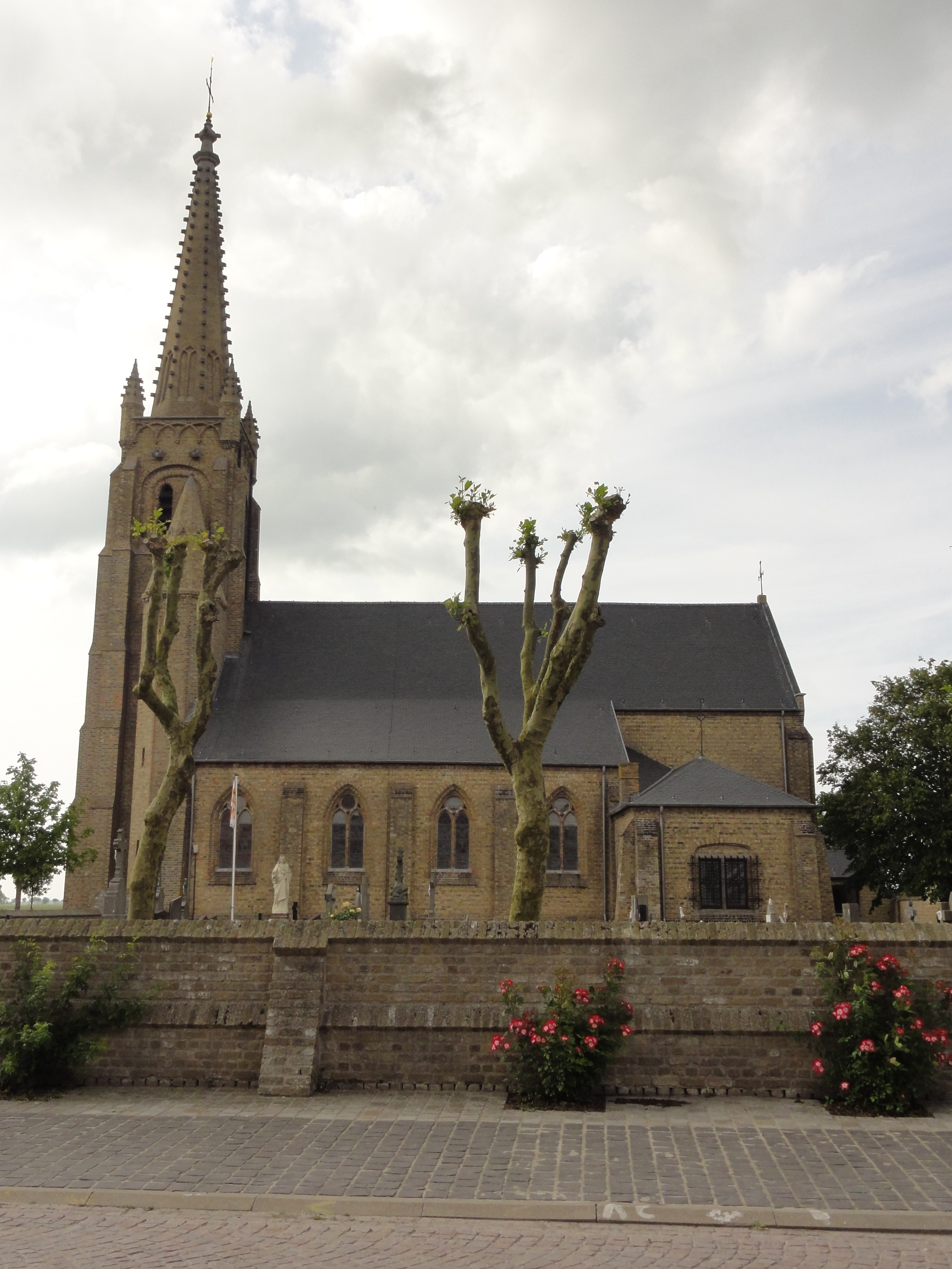 Sint-Petruskerk (Church of Saint Peter) in Stuivekenskerke. Stuivekenskerke, Diksmuide, West Flanders, Belgium